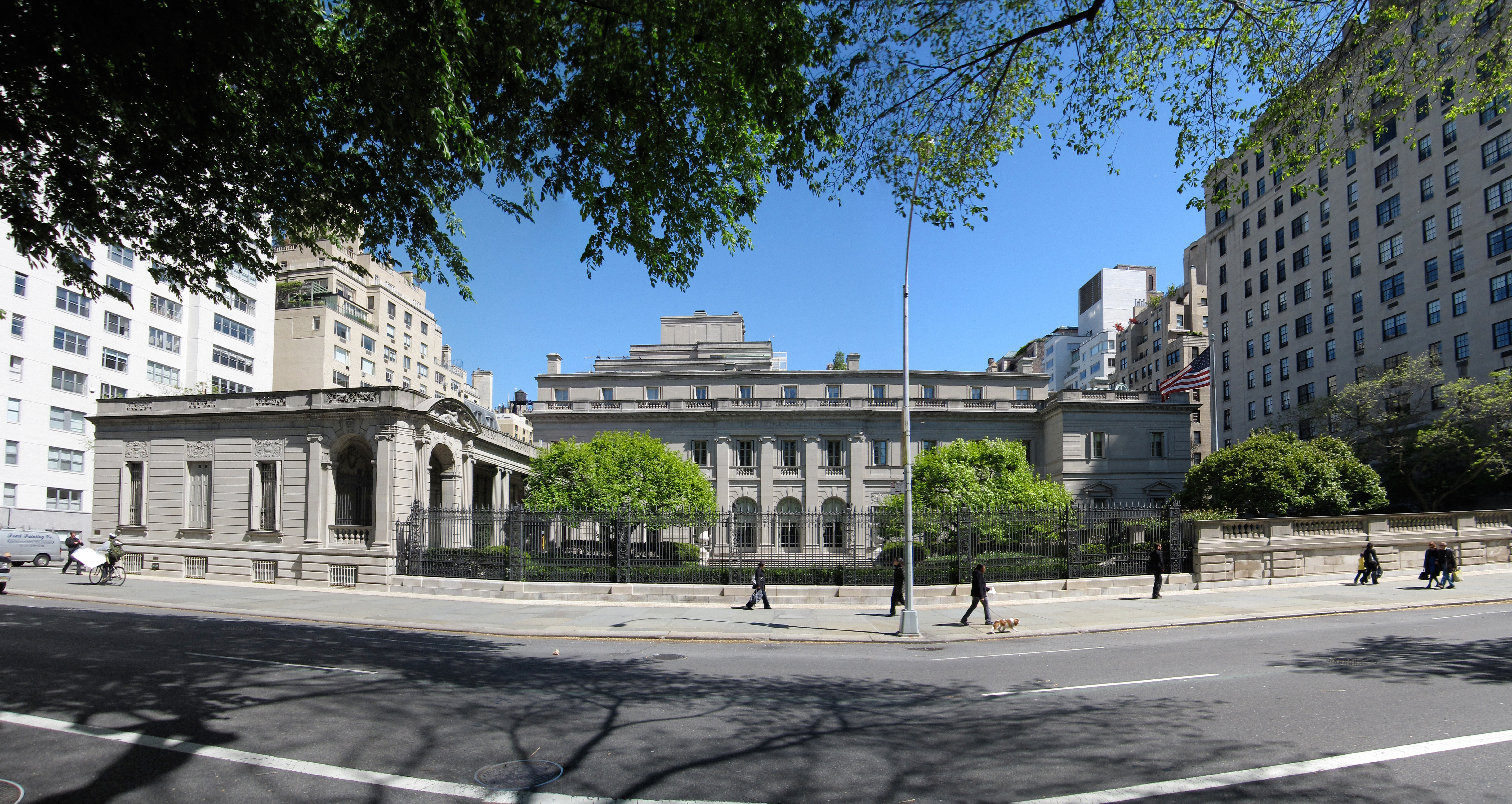 Henry C. Frick House on 5th Avenue in New York, today contains the Frick Collection.